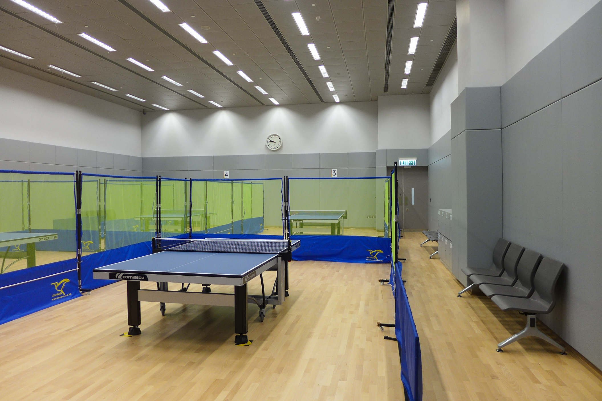 Yuen Long Sports Centre Table Tennis Room